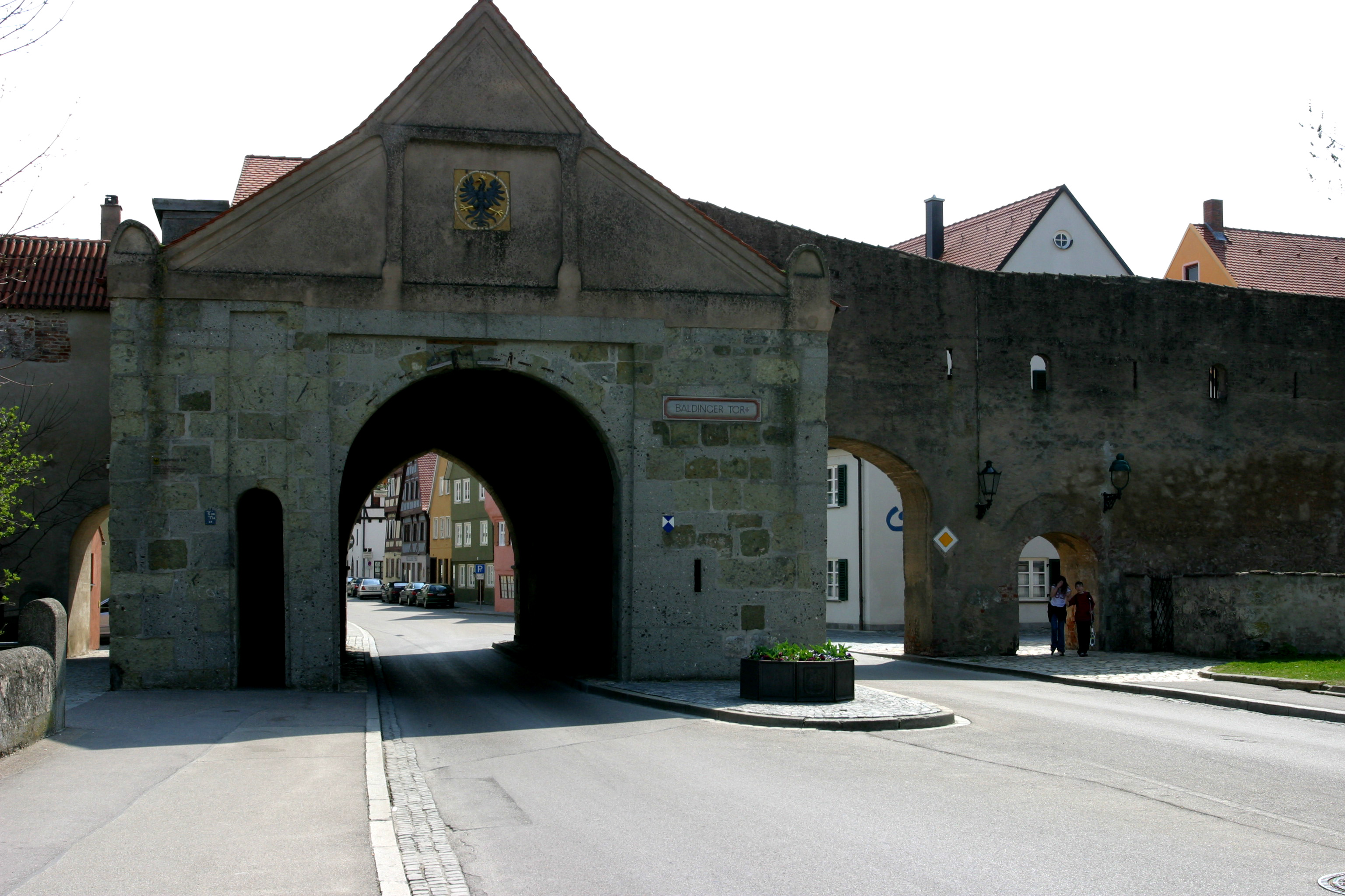 Picture from Nördlingen (Bayern) Germany Baldinger Tor